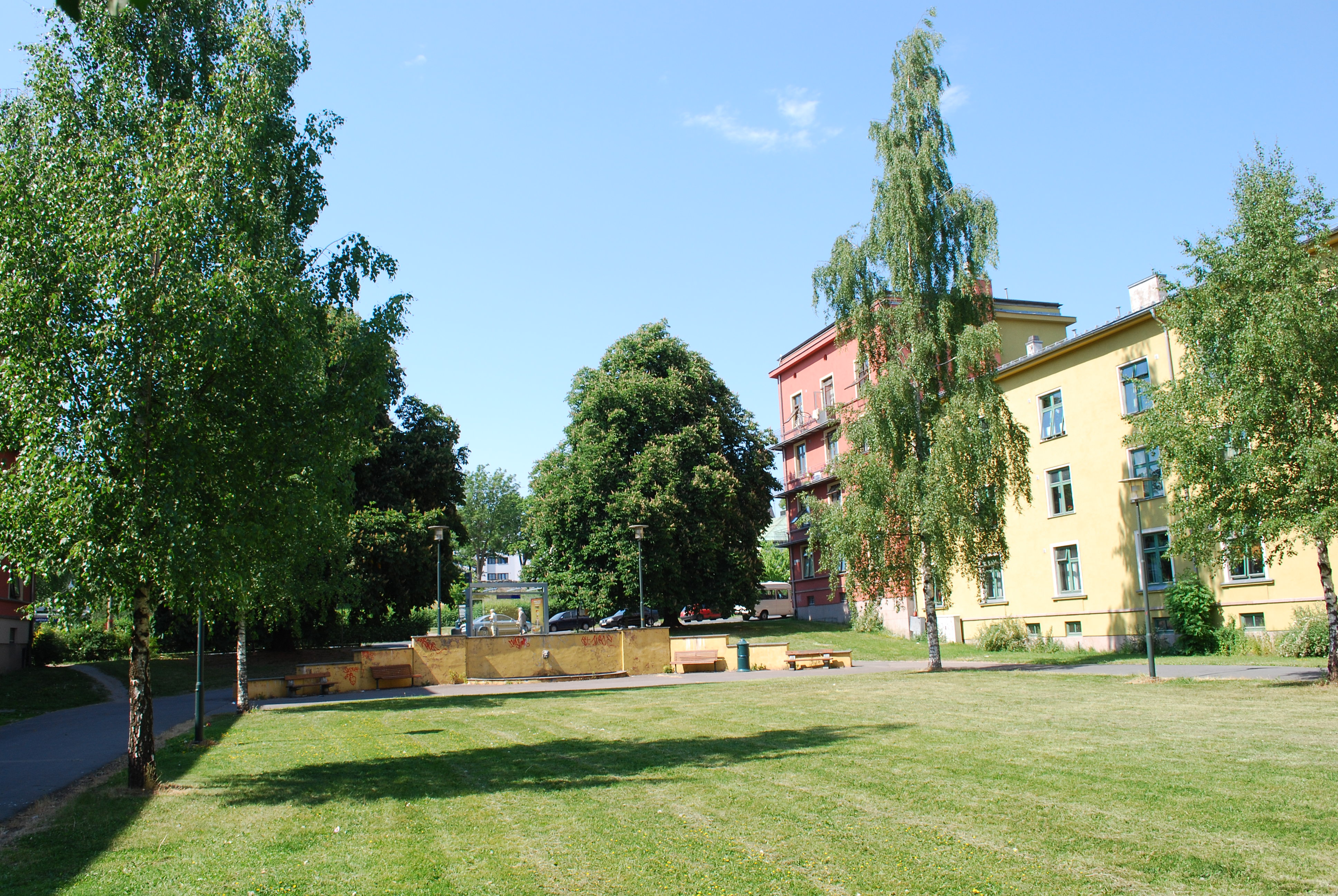 Haarklous plass, Torshov, Oslo